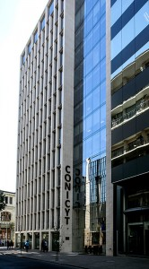 Edificio Institutional CONICYT